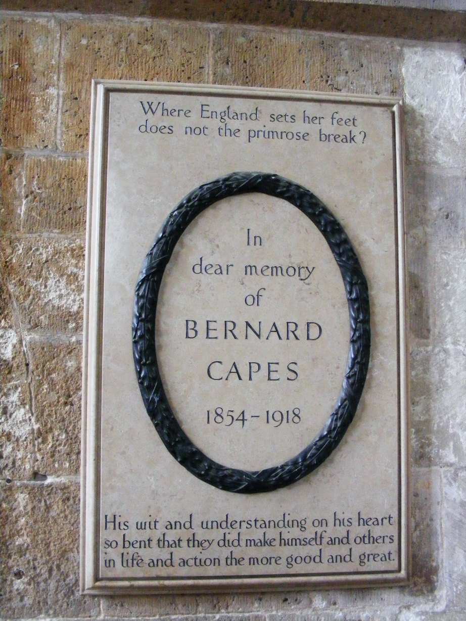 Bernard Capes memorial tablet in Winchester Cathedral's north transept.